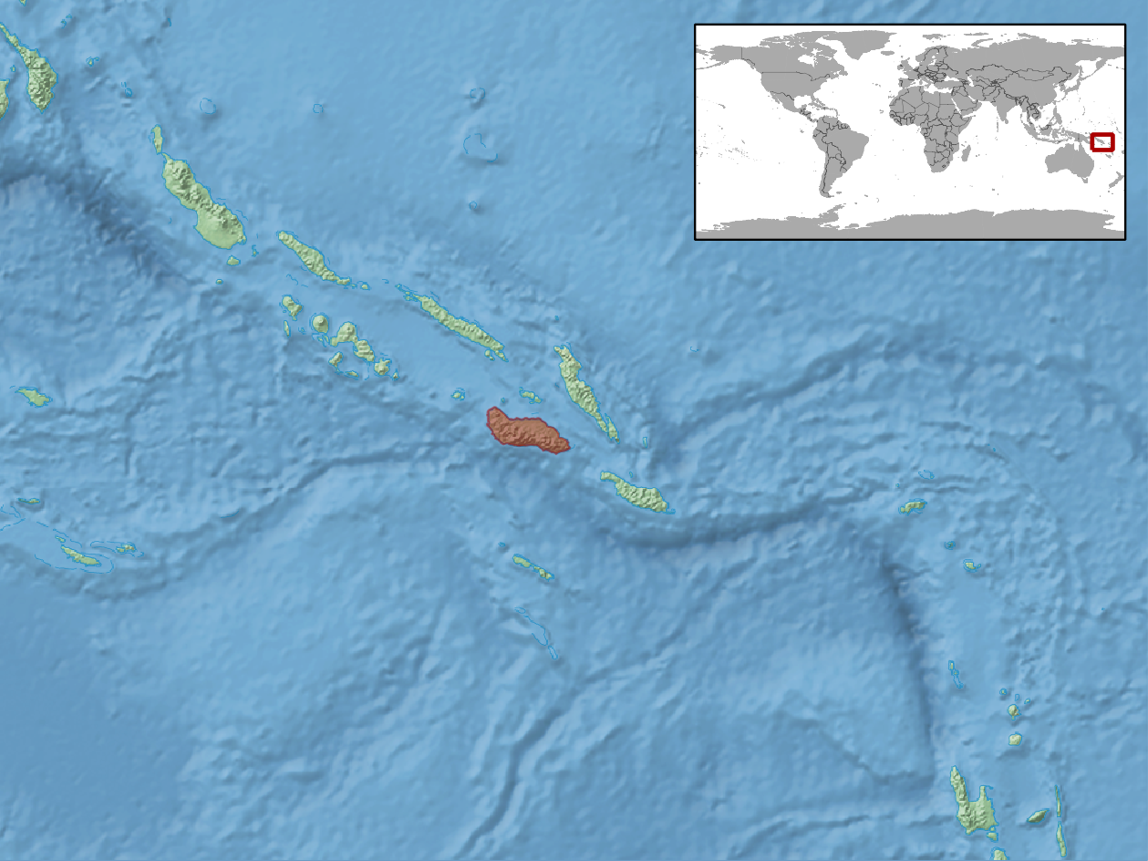 geographic distribution of Cyrtodactylus biordinis (Native: Solomon Islands)